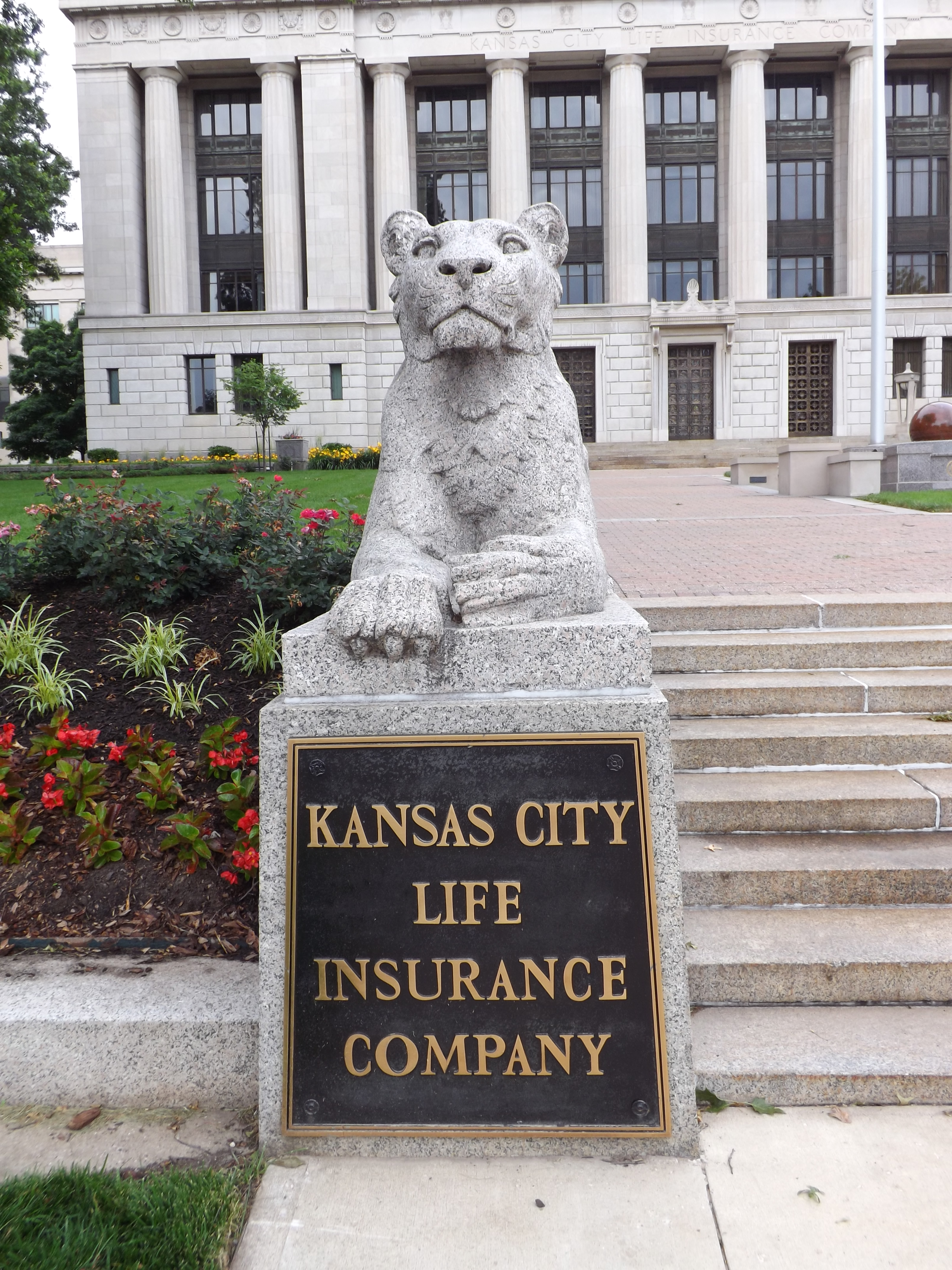 This lioness was sculpted by Norwegian-born Jorgen C. Dreyer in 1925 for the Kansas City Life Insurance building, completed in 1924.